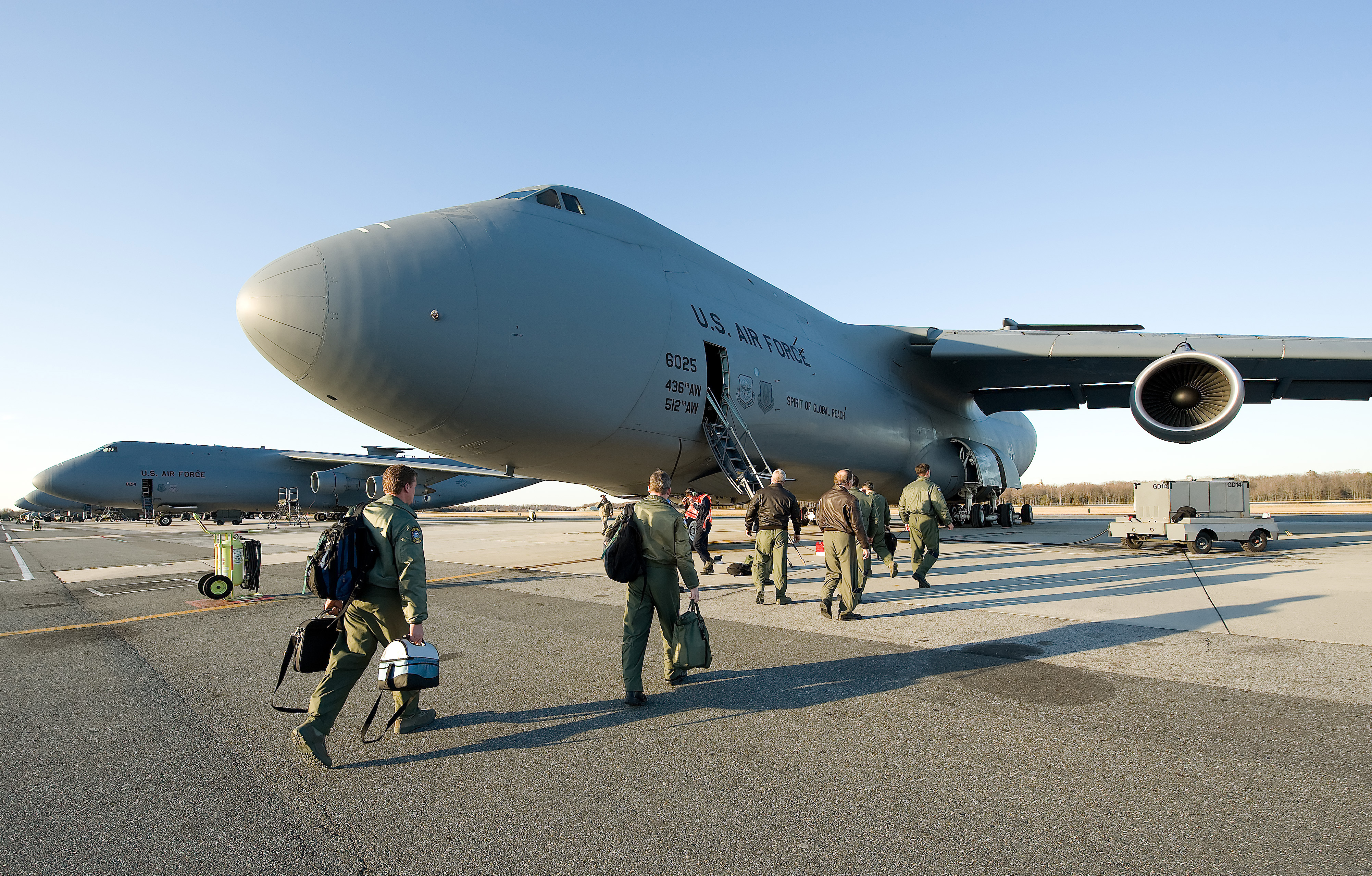 A 709th Airlift Squadron aircrew here boards The Spirit of Global Reach for their first local training mission Feb. 17. The aircraft arrived at Dover Air Force Base, Del., Feb. 9 and is the first of three C-5M Super Galaxies the base will receive for operational testing and evaluation. The 709th AS is a unit in the Air Force Reserve's 512th Airlift Wing. (Air Force photo/Jason Minto)